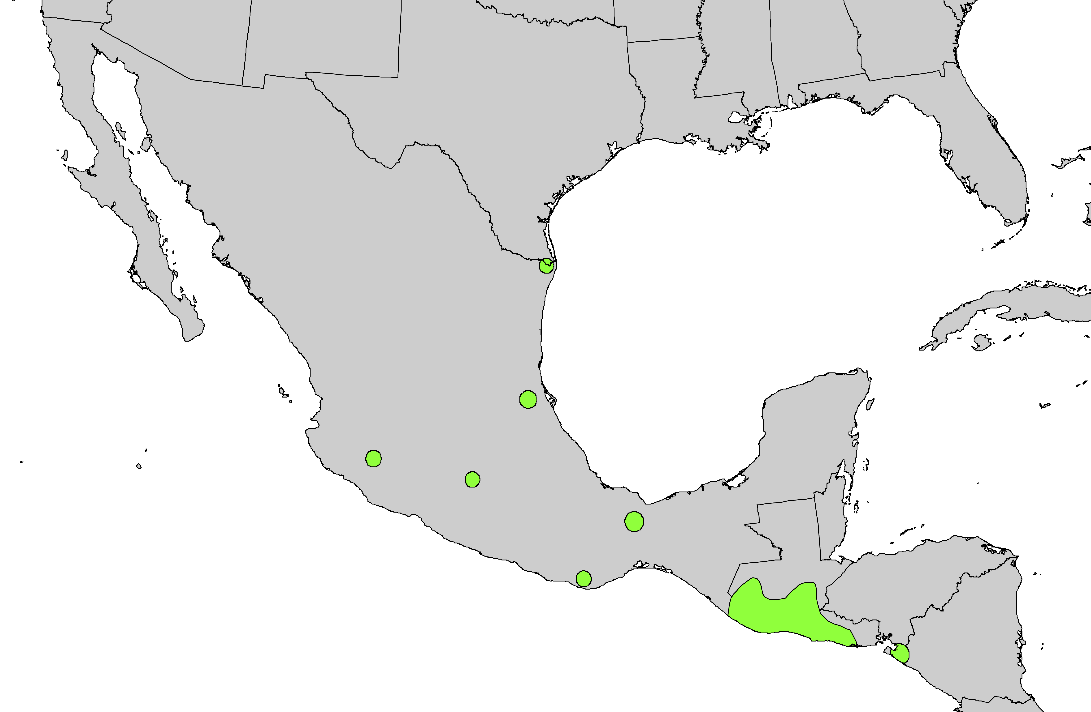 Range map of Sabal mexicana